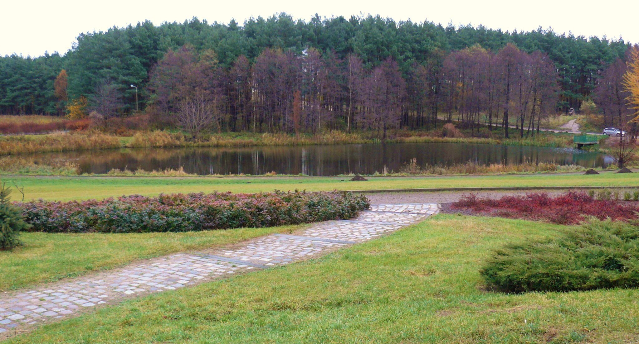 Ponds, Campus UAM, Poznan.